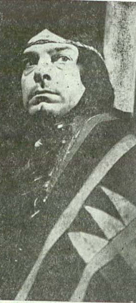 Romanian actor Silviu Stănculescu